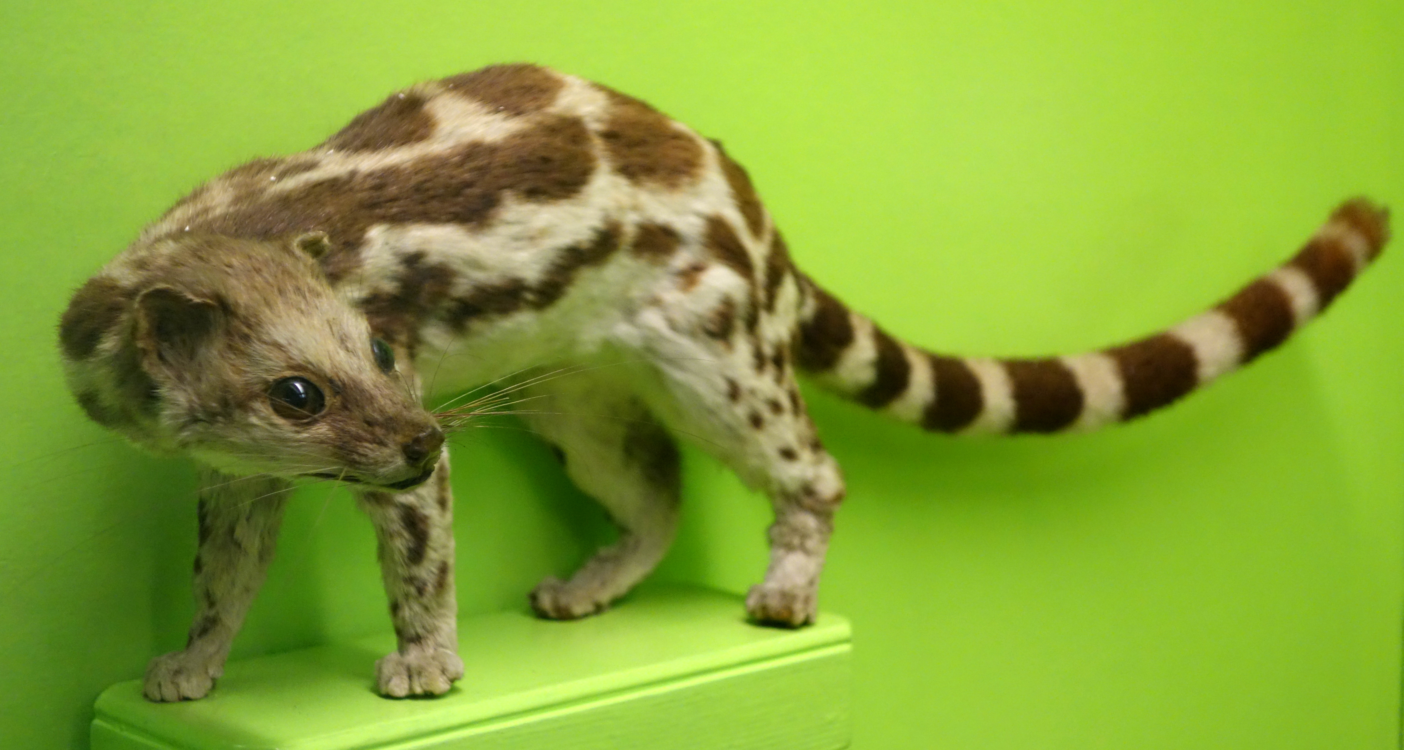 Exhibit in the Museo Civico di Storia Naturale di Genova, Via Brigata Liguria, 9, 16121, Genoa, Italy.